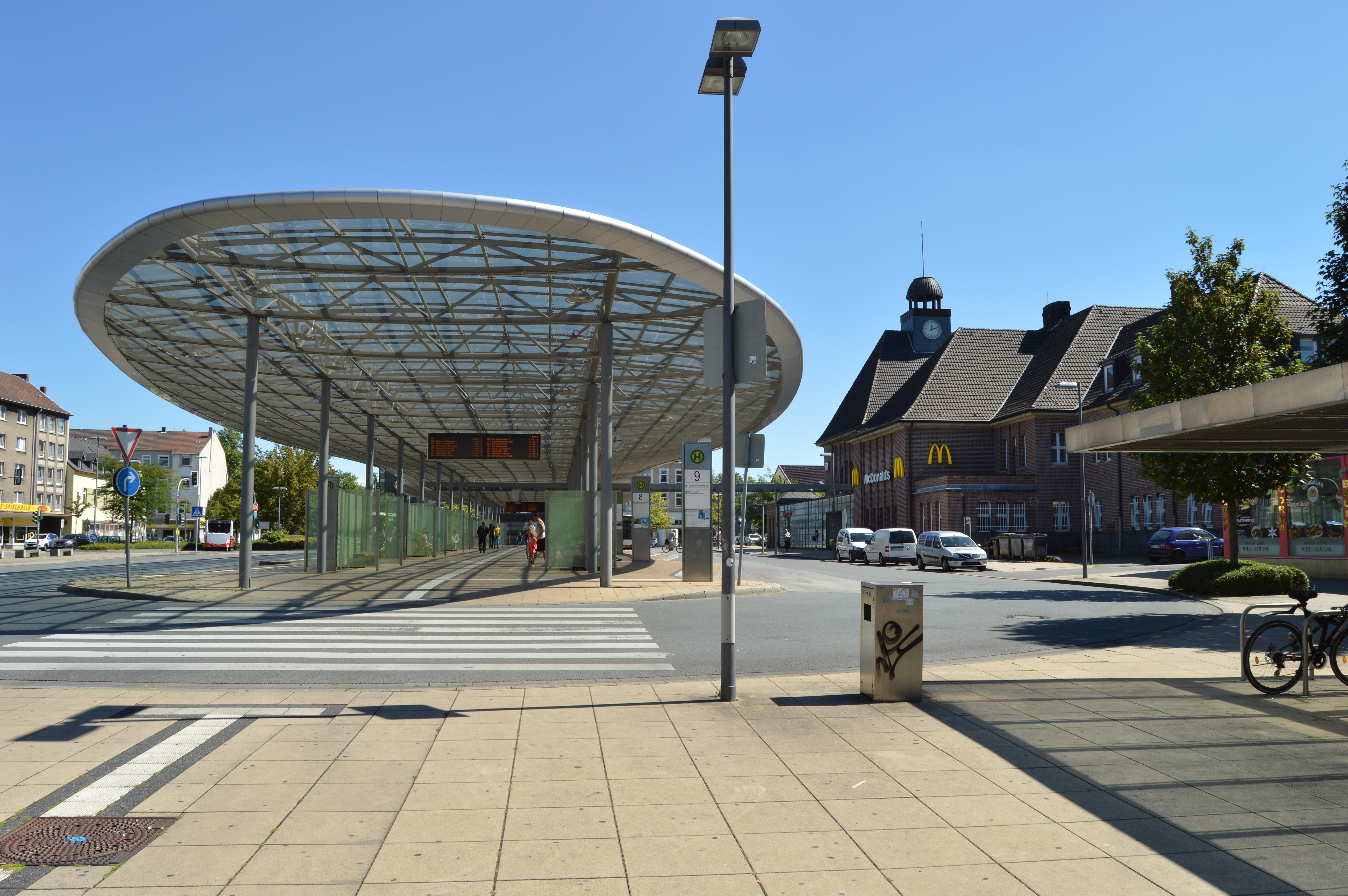 The bus station and the north side of the train station in Herne, Germany